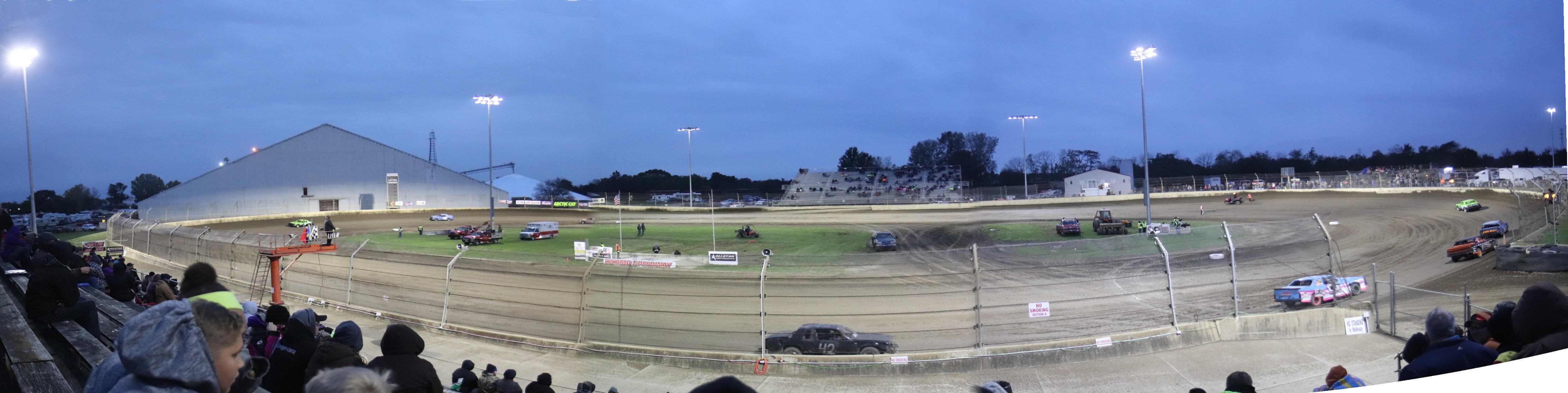 panorama of Kokomo Speedway at the 2018 Kokomo Klash